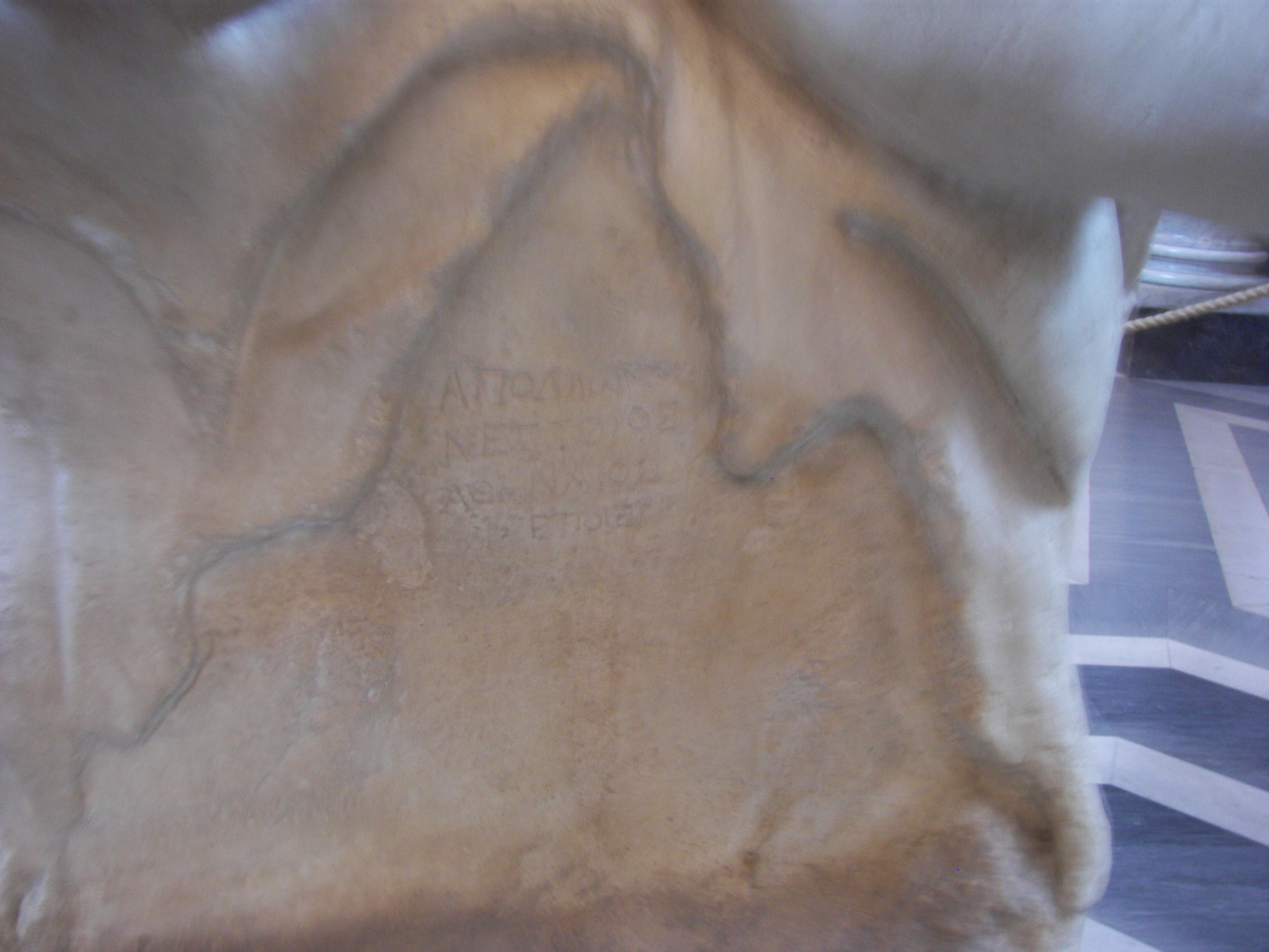 Greek inscription on the pedestal of the Belvedere Torso in Museo Pio-Clementino.